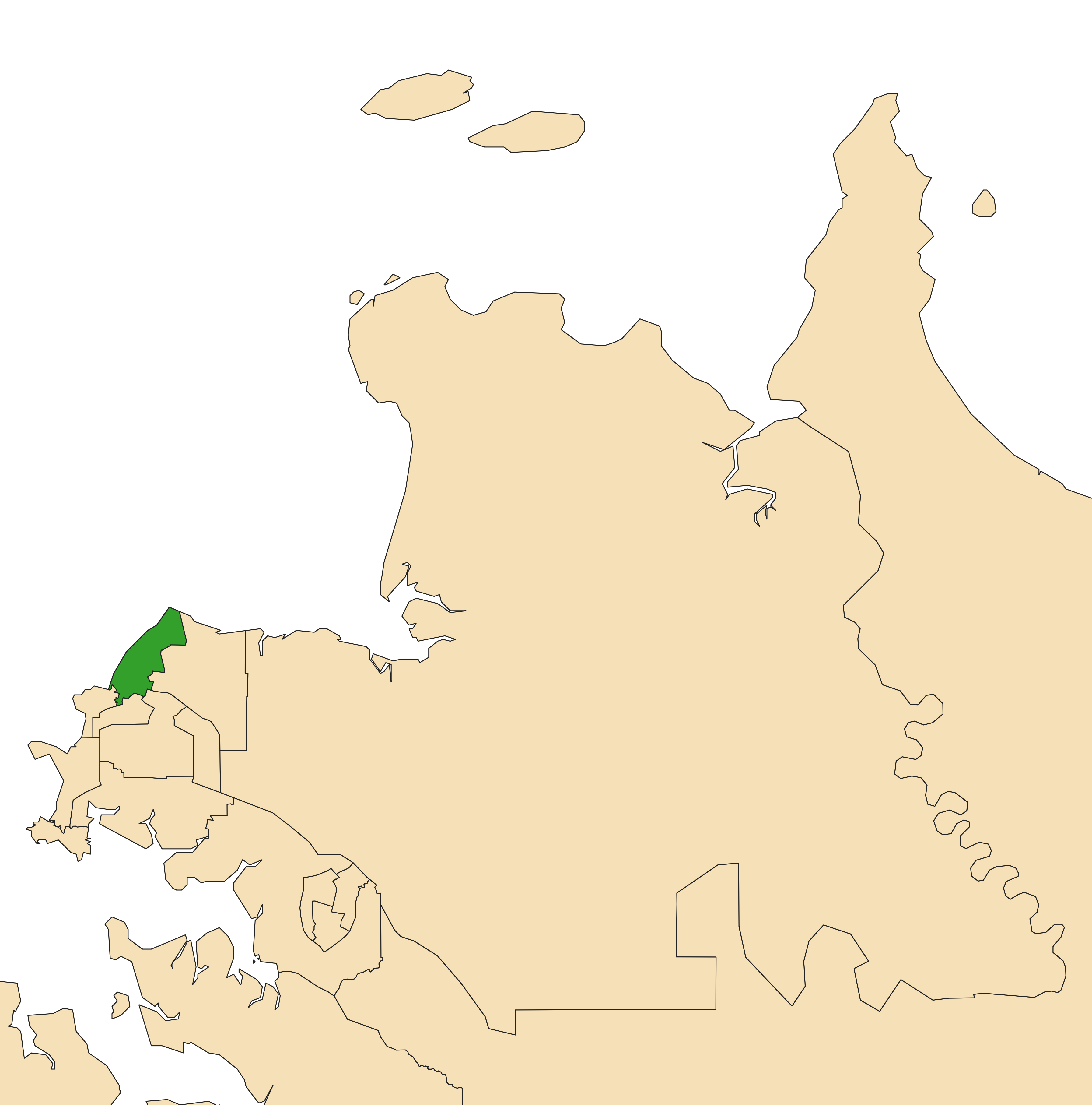 Location of the electoral division of Casuarina (dark green) in the Darwin/Palmerston area of the Northern Territory at the 2020 Northern Territory election